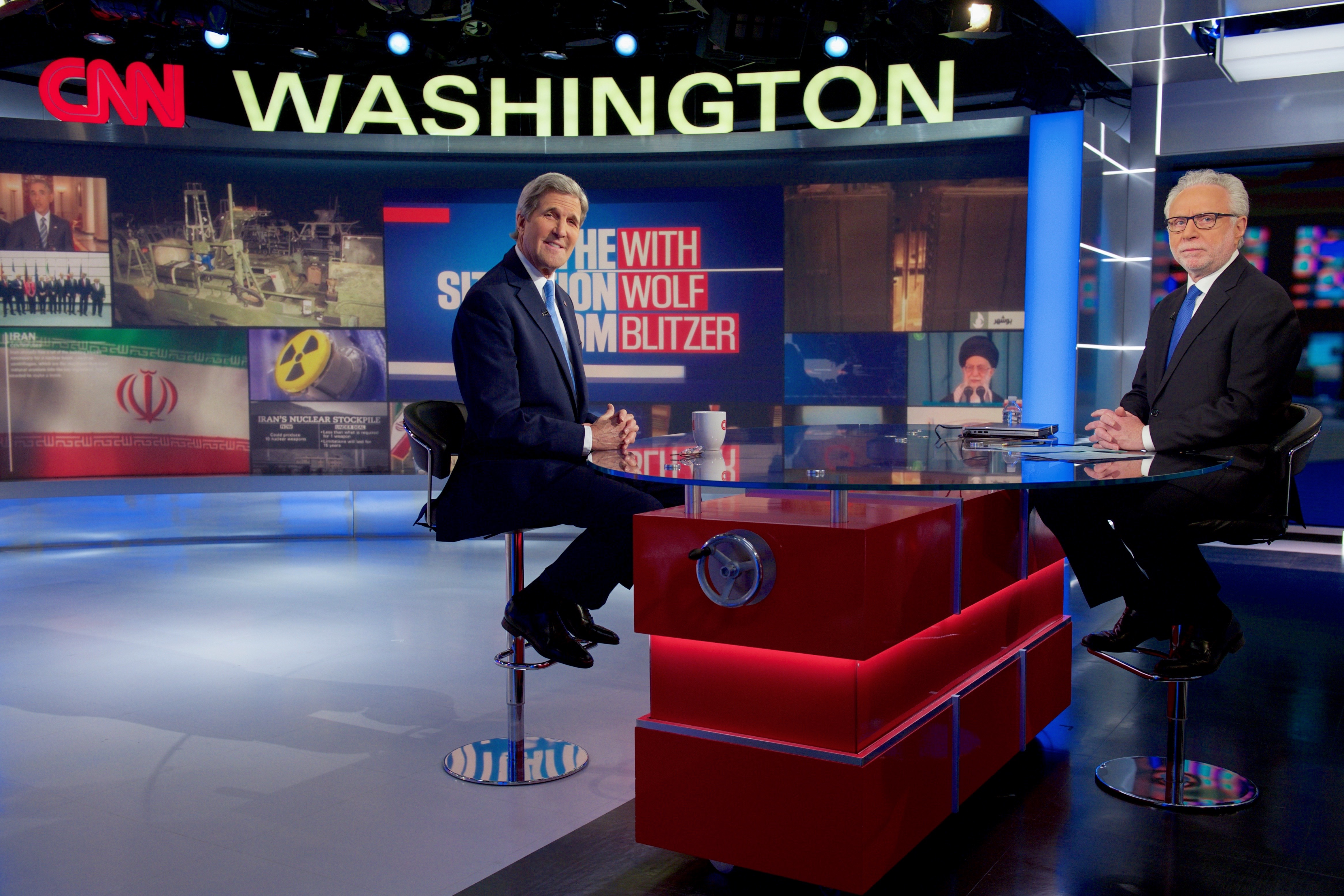 U.S. Secretary of State John Kerry sits with Wolf Blitzer, anchor of CNN's "Situation Room," before the two taped a wide-ranging interview - one of a series recorded that day - on January 18, 2016, an the CNN Washington Bureau in Washington, D.C.